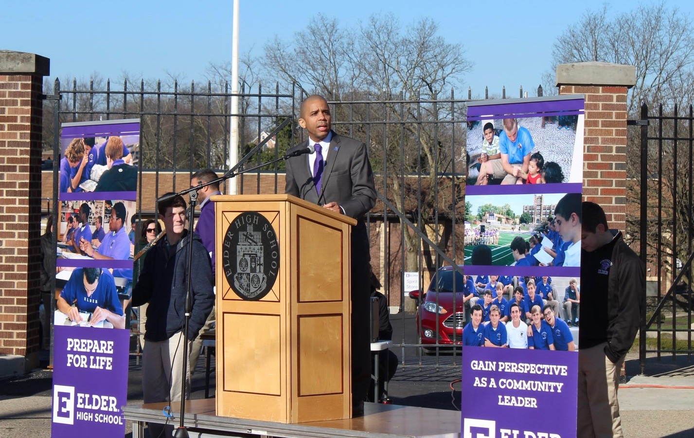 Cincinnati Vice Mayor Christopher Smitherman speaking at Elder High School in Cincinnati, Ohio.